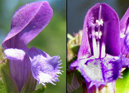 The bilaterally symmetric flowers of Prunella vulgaris. Flowers like these a typical in the Lamiaceae family.